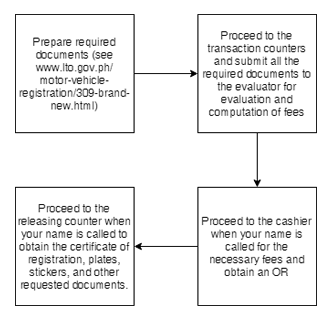 A chart that shows the full procedure in registering motor vehicles in the Philippines, under the Land Transportation Office. Information found on the chart could be found on the LTO website.